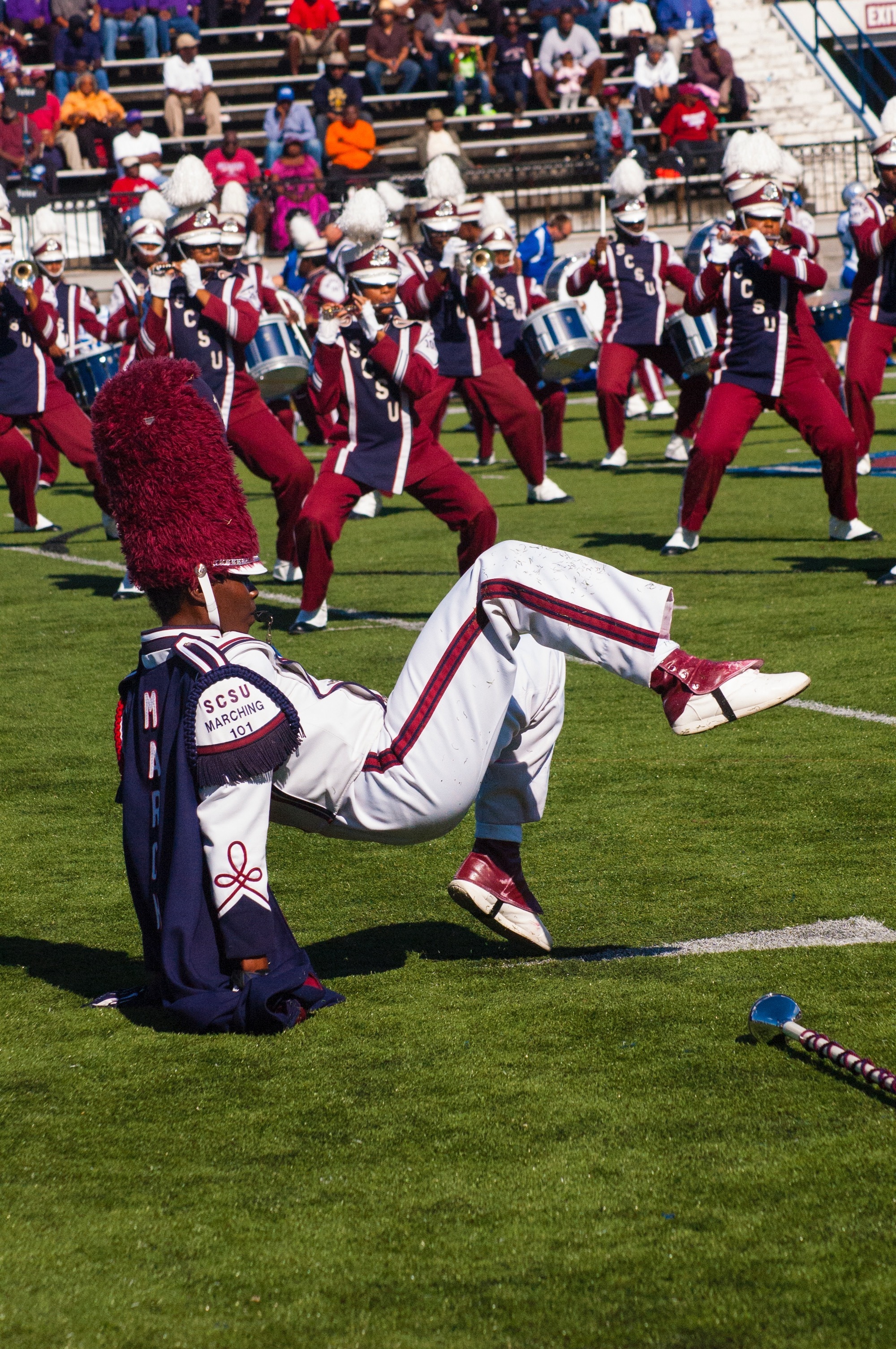 The Marching 101 Band of SC State University (SCSU)